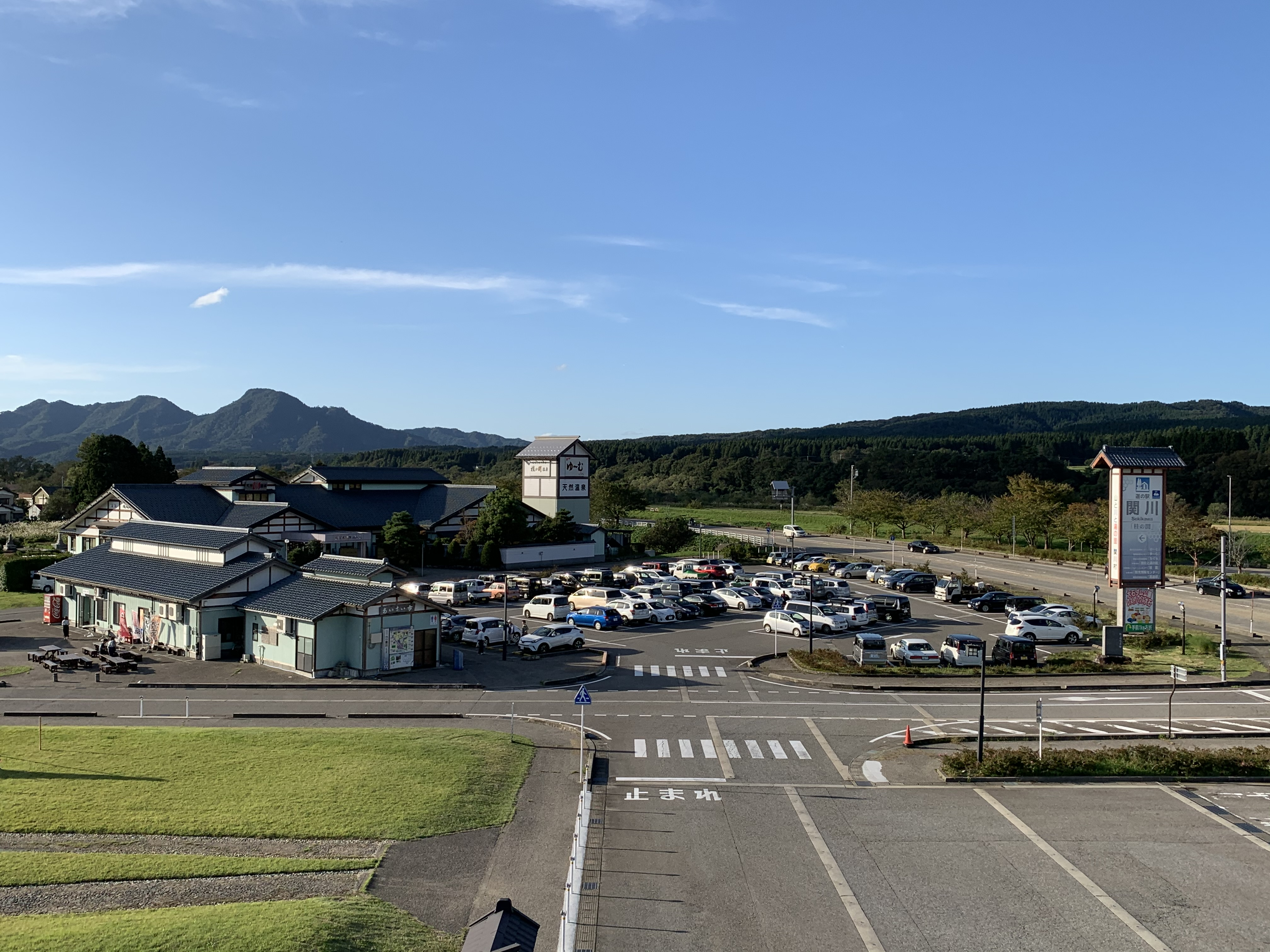 Sekikawa, Michi no Eki (Roadside Station), Niigata, Japan. Took photo in October 2019.